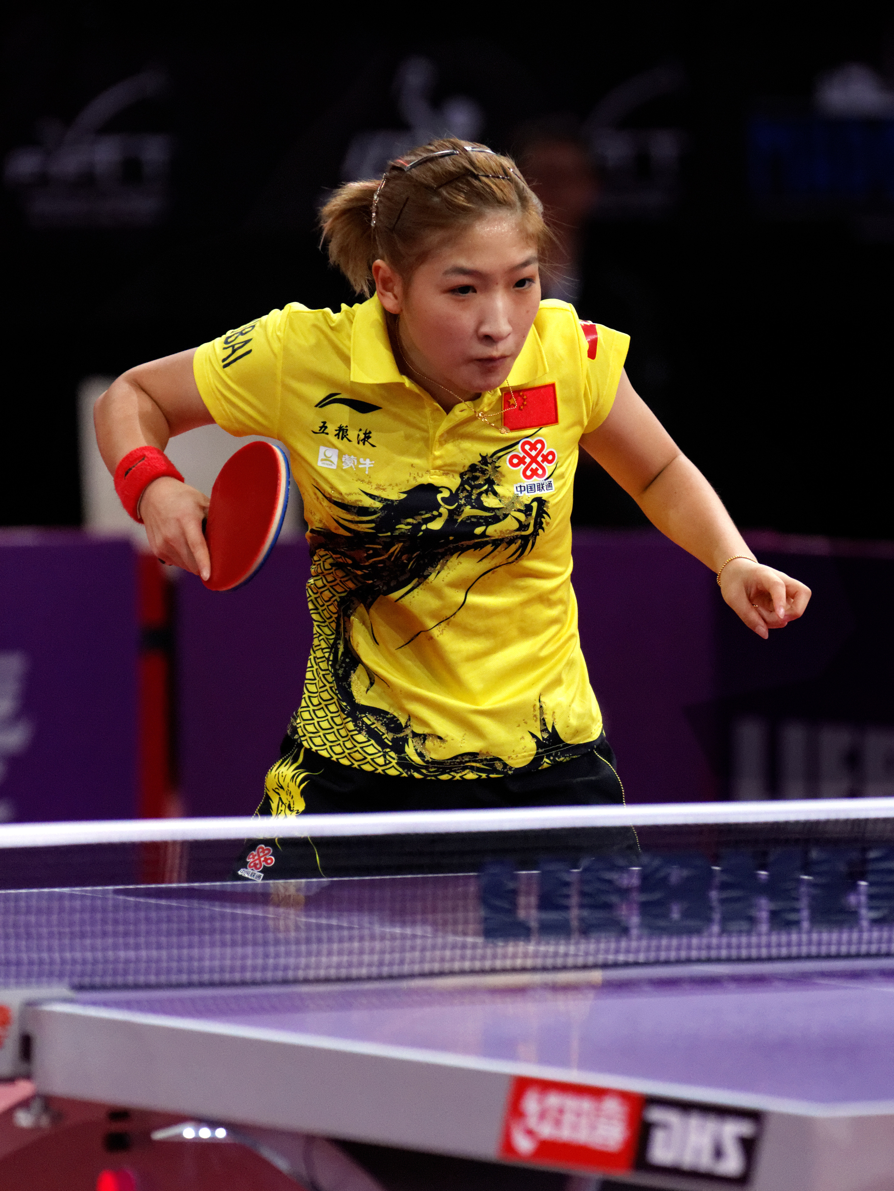 2013 World Table Tennis Championships, Paris. Women's Singles Quarterfinal. Melek Hu vs Liu Shiwen.